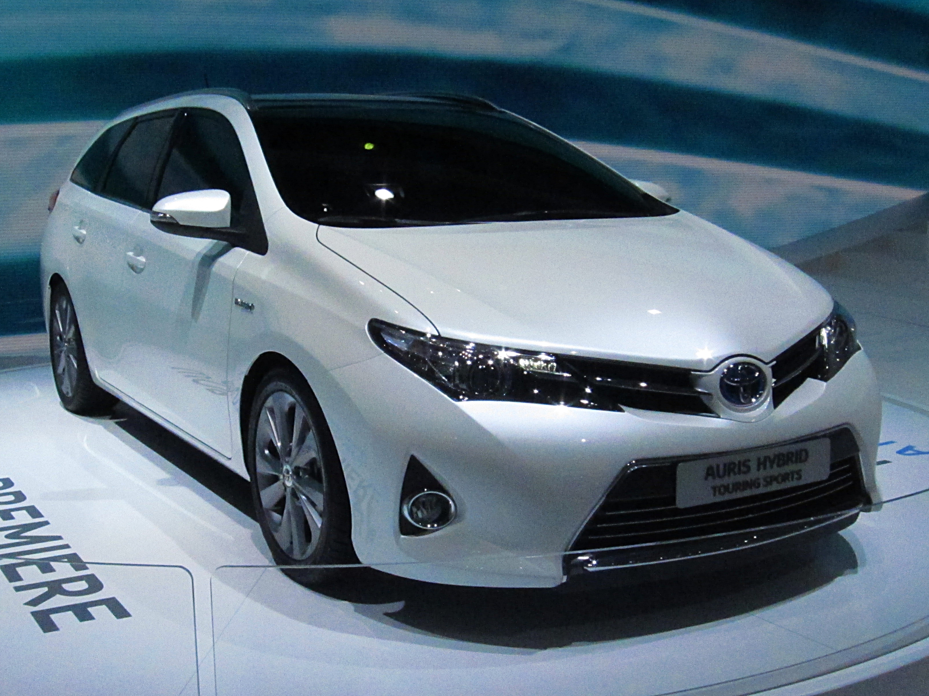 Toyota Auris Hybrid Touring Sports at Mondial de l'Automobile Paris 2012